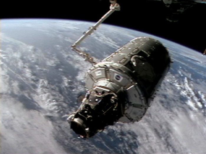 The relocation of the Harmony module, launched on STS-120, to the front of the Destiny laboratory of the International Space Station.